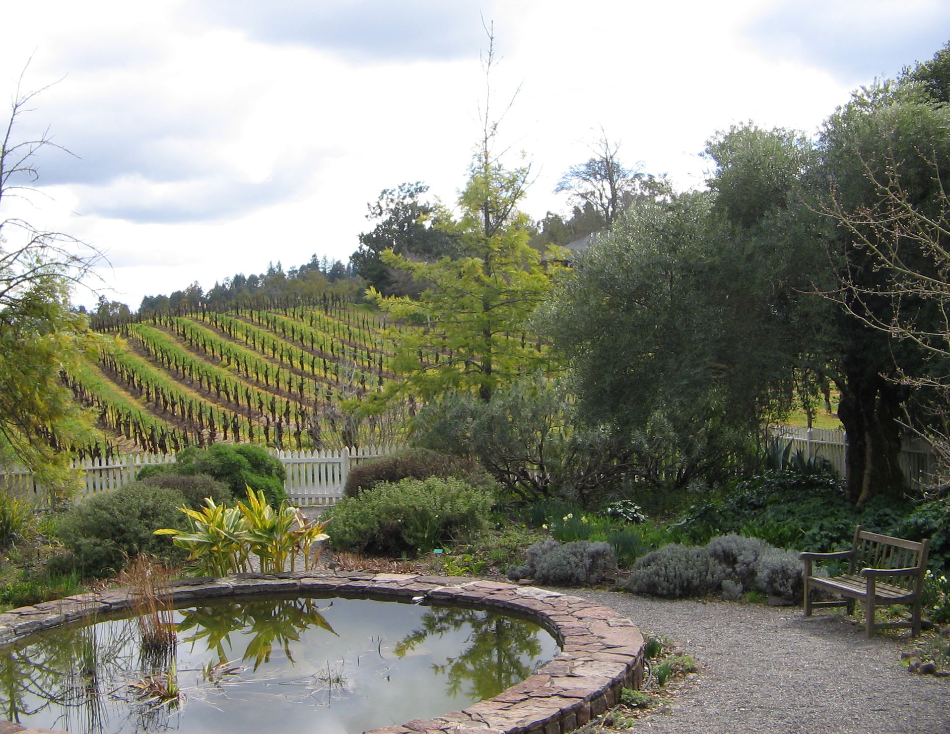 Garden behind Jack London's Cottage. Jack London State Historic Park, Glen Ellen, California.